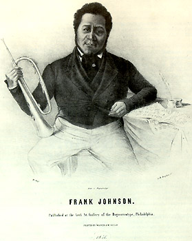 Composer Francis Johnson in a contemporary etching. Johnson was an important musician in Philadelphia, who died in 1844